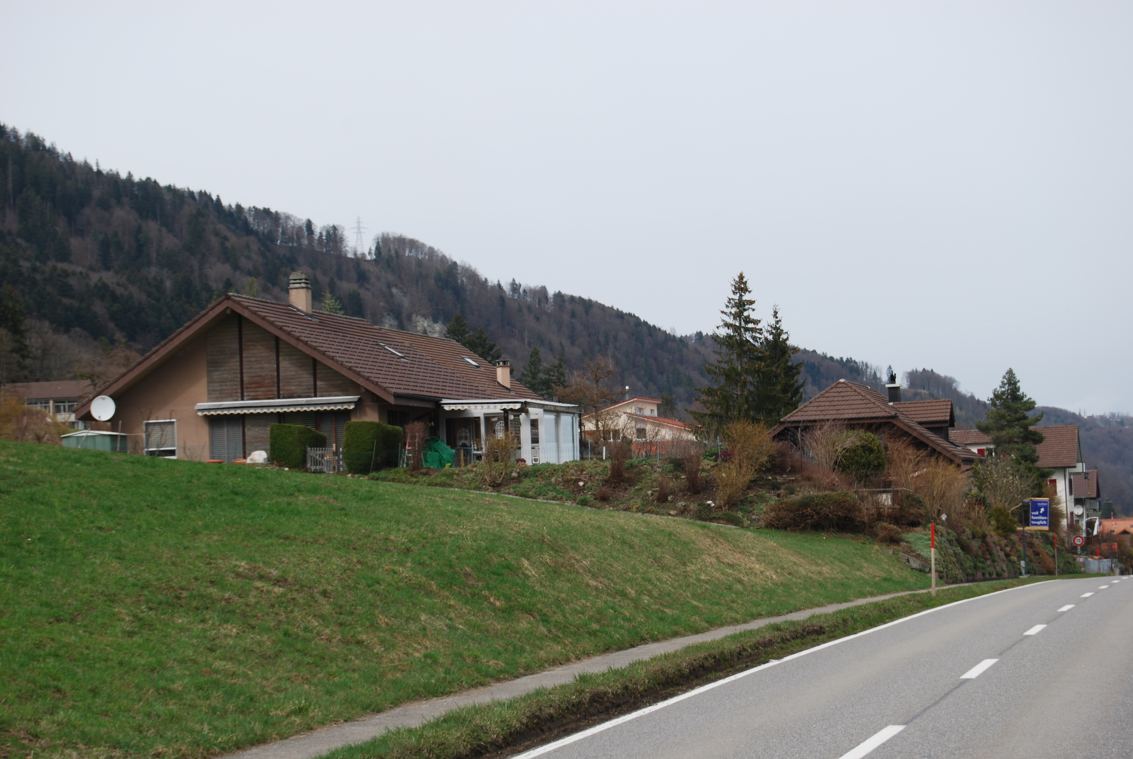 Rümligen, canton of Bern, SwitzerlandEsperanto: Rümligen, Kantono Berno, Svislando